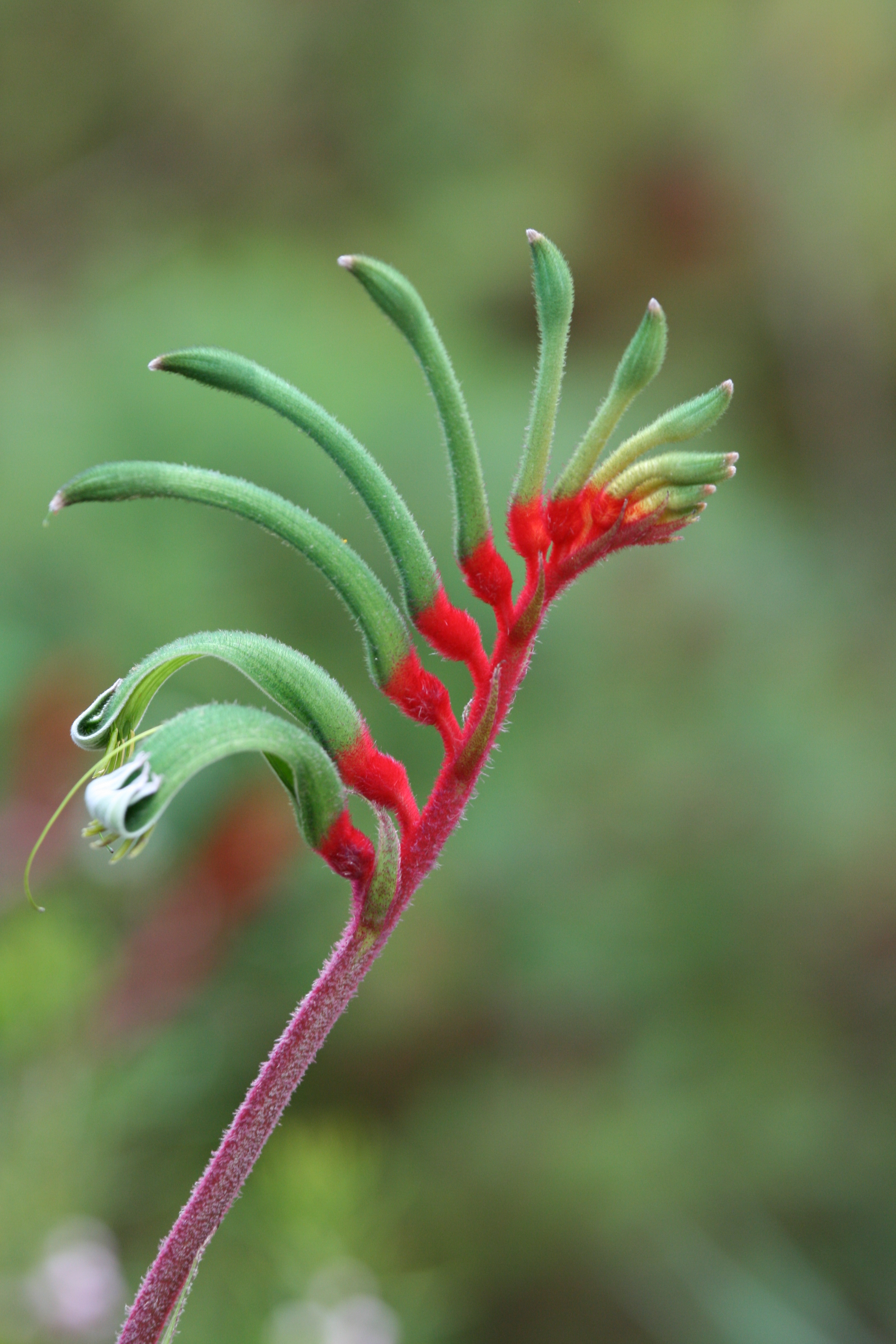 Red and Green Kangaroo Paw (Anigozanthos manglesii) cultivated at Kings Park, Perth, Western Australia. Photographed on 25 October 2008